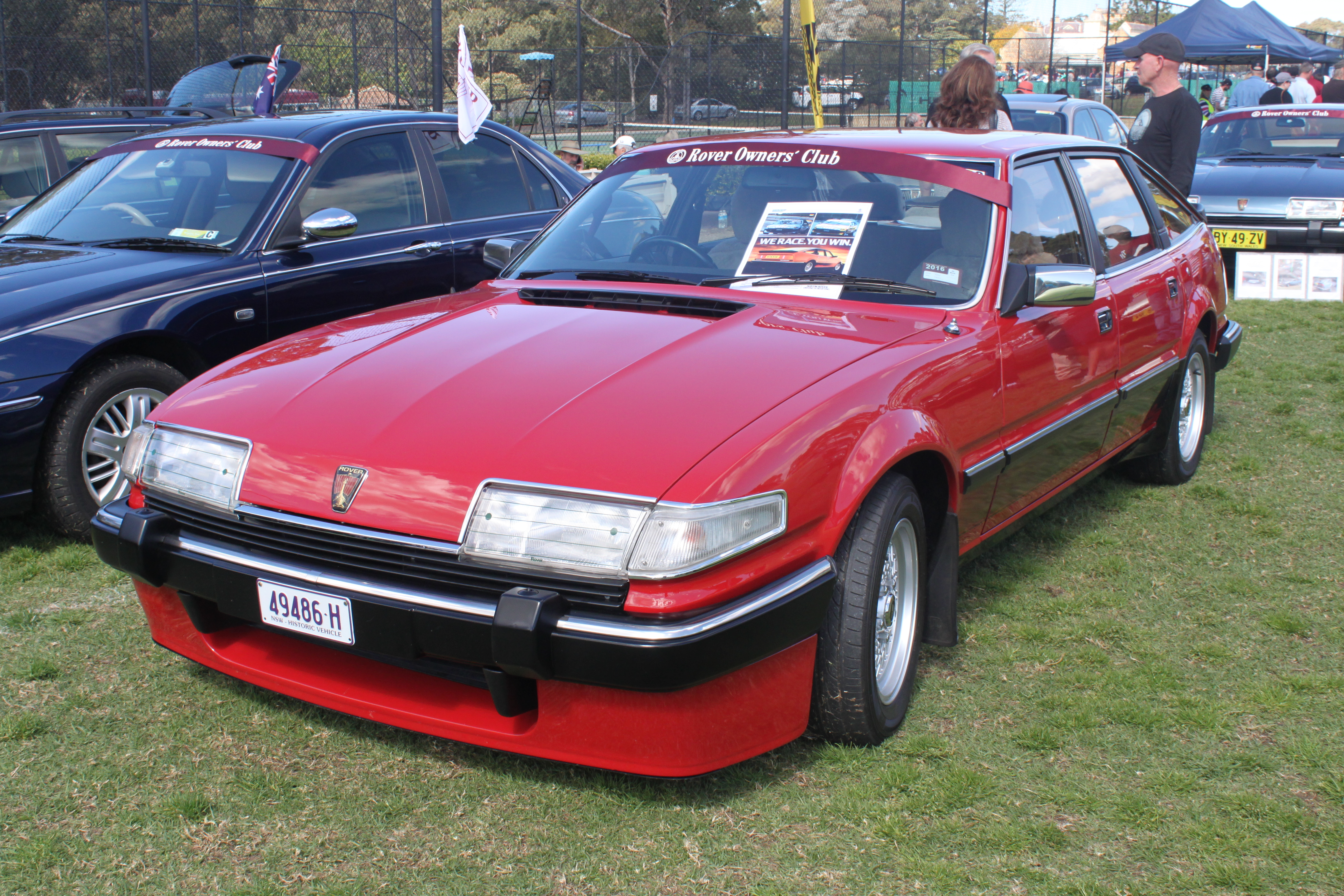 All British Day, Kings School, North Parramatta, NSW August 2015